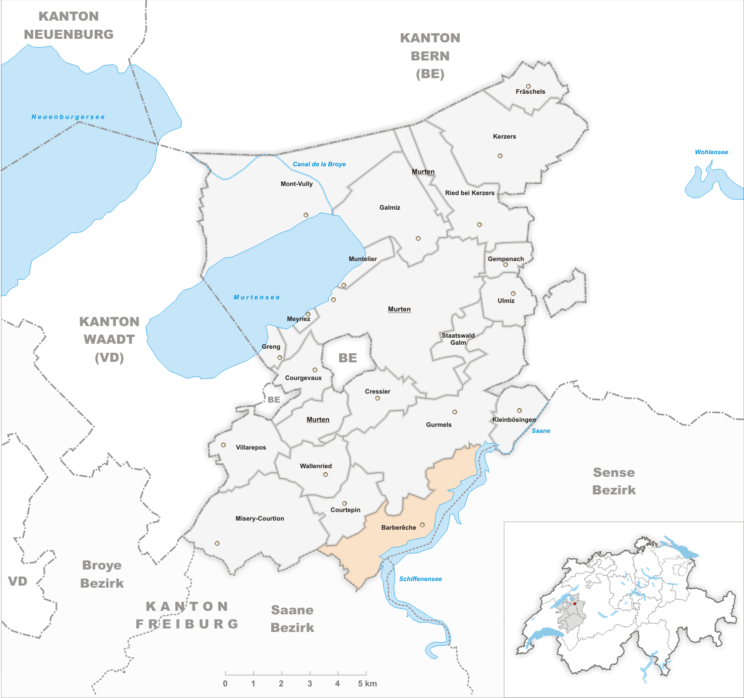 Municipality Barberêche